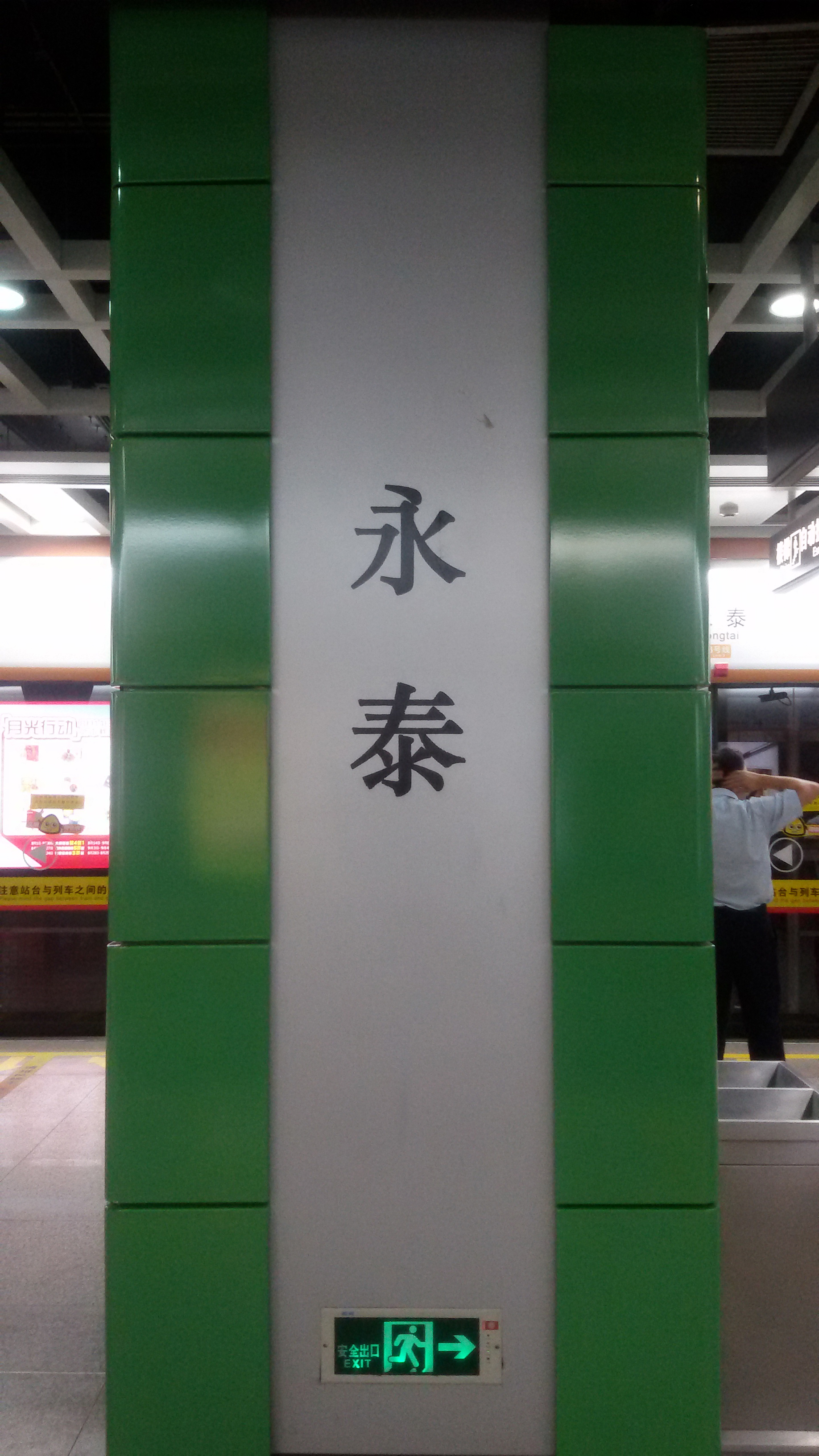 WORD on PILLAR for Yongtai Station, Guangzhou Metro.